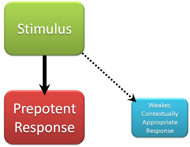 Diagram explaining a general inhibitory response according to the theory of inhibition in cognitive psychology. Adapted from a version by Michael C. Anderson (2007).